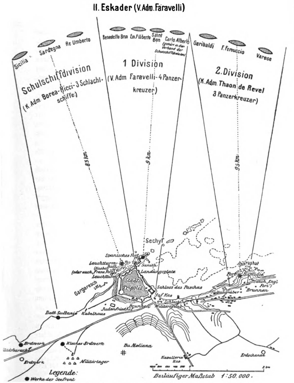 Bombardement of Tripolis.